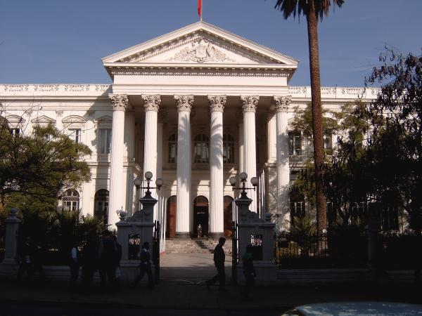 Photograph of the Palacio del Ex-Congreso, Morande 441 Santiago de chile, take by User:zootalures (Owen Cliffe) 25/05/2004